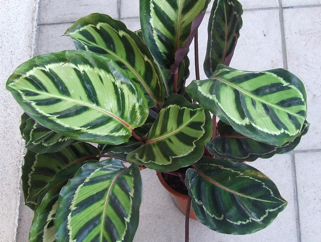 Calathea roseopicta